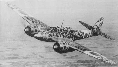 Kawasaki Ki-45. Believed to be public domain, one of several identical images on the WWW